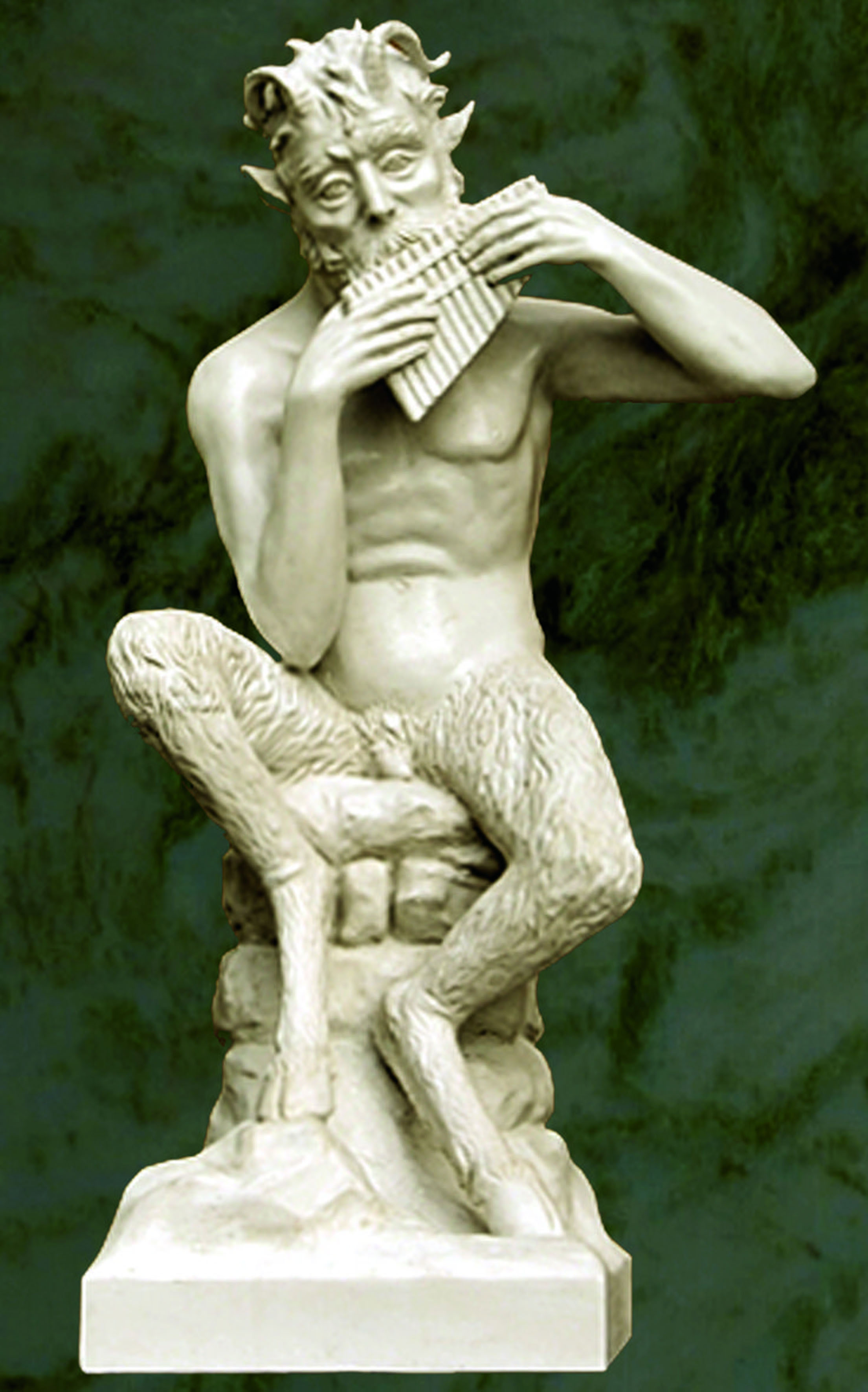 Synthetic marble statuette by Jose Manuel Felix Magdalena, 110 x 54 x 32 cm